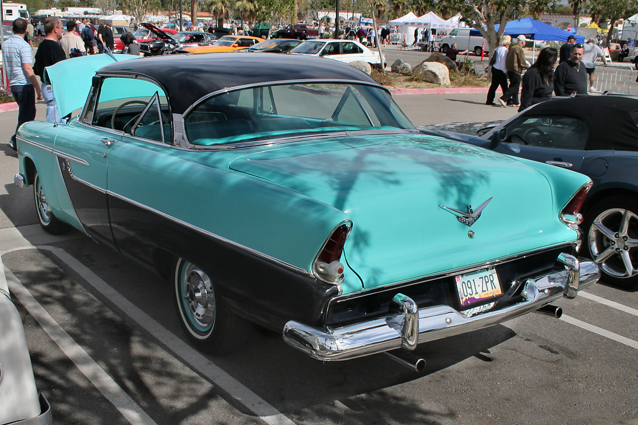 1955 Plymouth Belvedere 2d htp - aqua black - 841